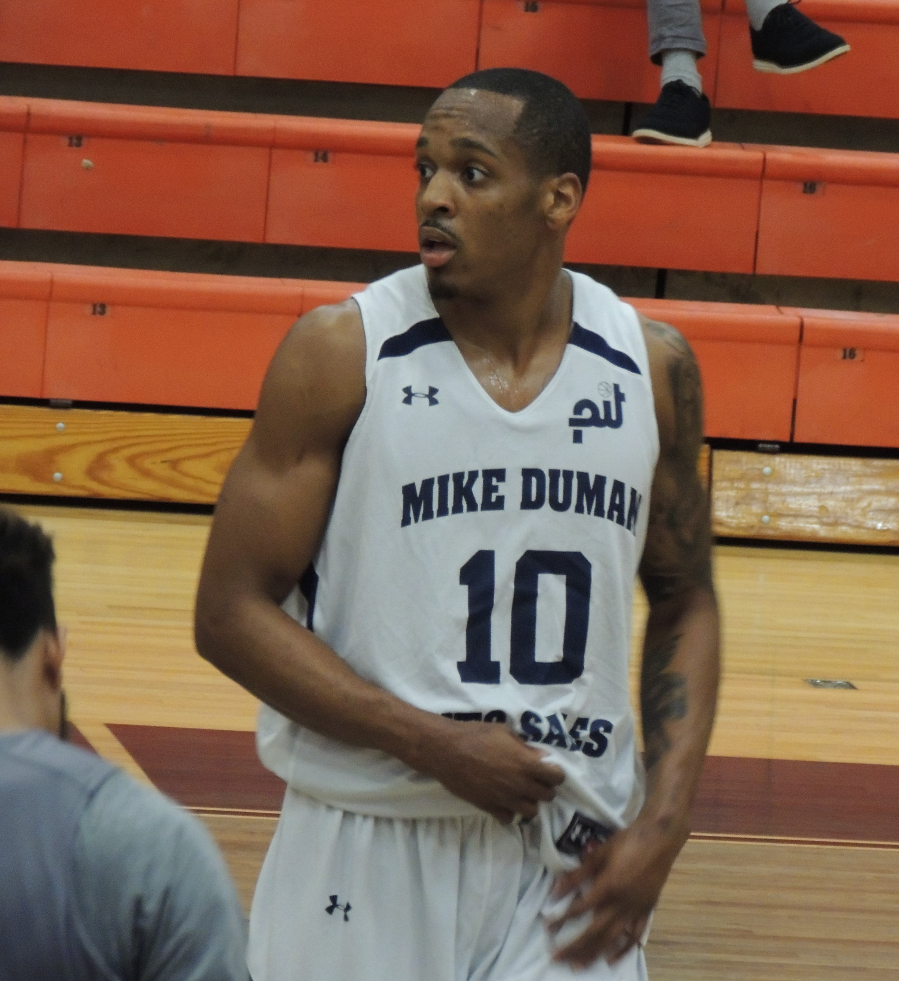 American basketball player Barry Brown Jr. of Kansas State University at the 2019 Portsmouth Invitational Tournament.